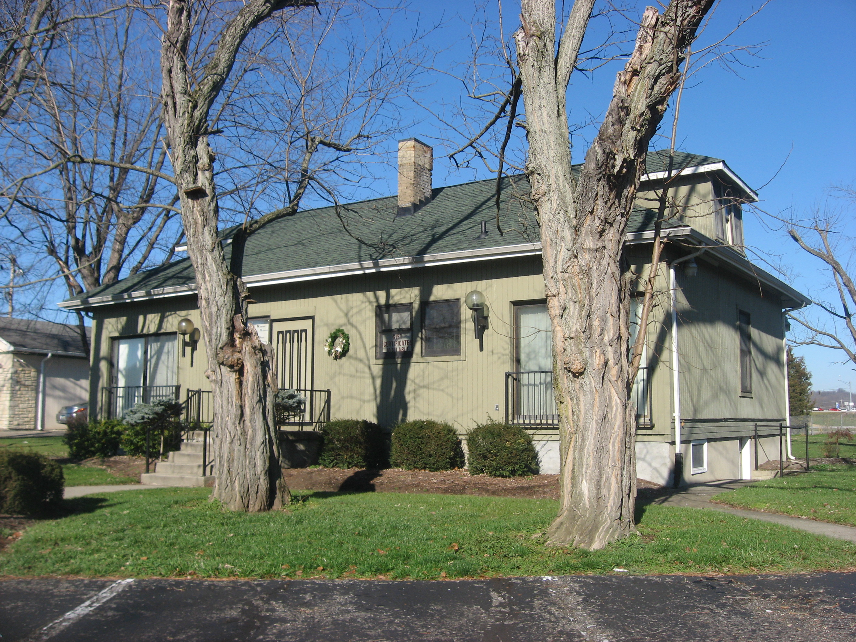 A building on the site of the Jehu John House on Stone Road in Harrison, Ohio, United States. The house was built in 1836; it is listed on the National Register of Historic Places, although it has been destroyed.